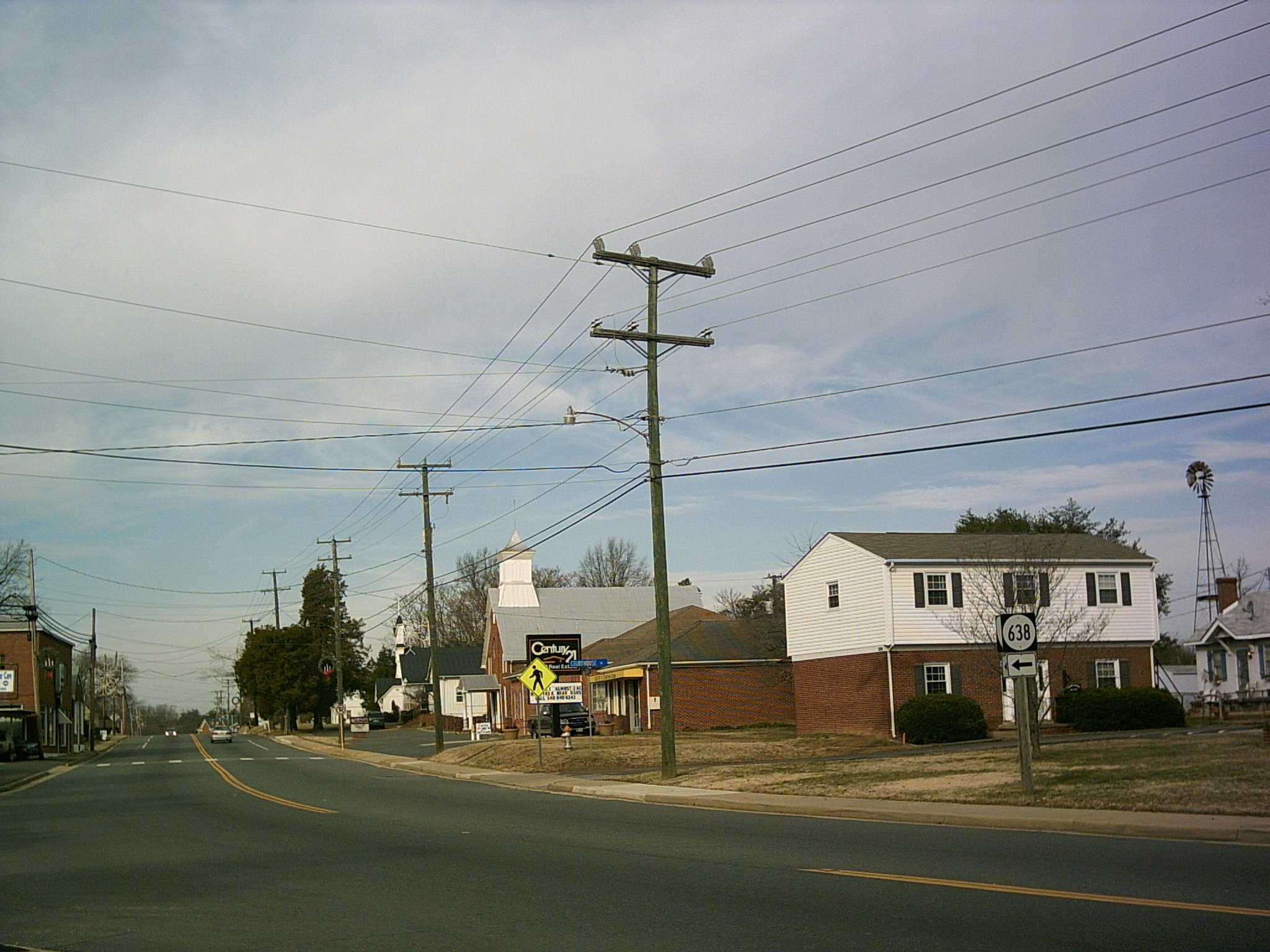 Downtown King George, Virginia